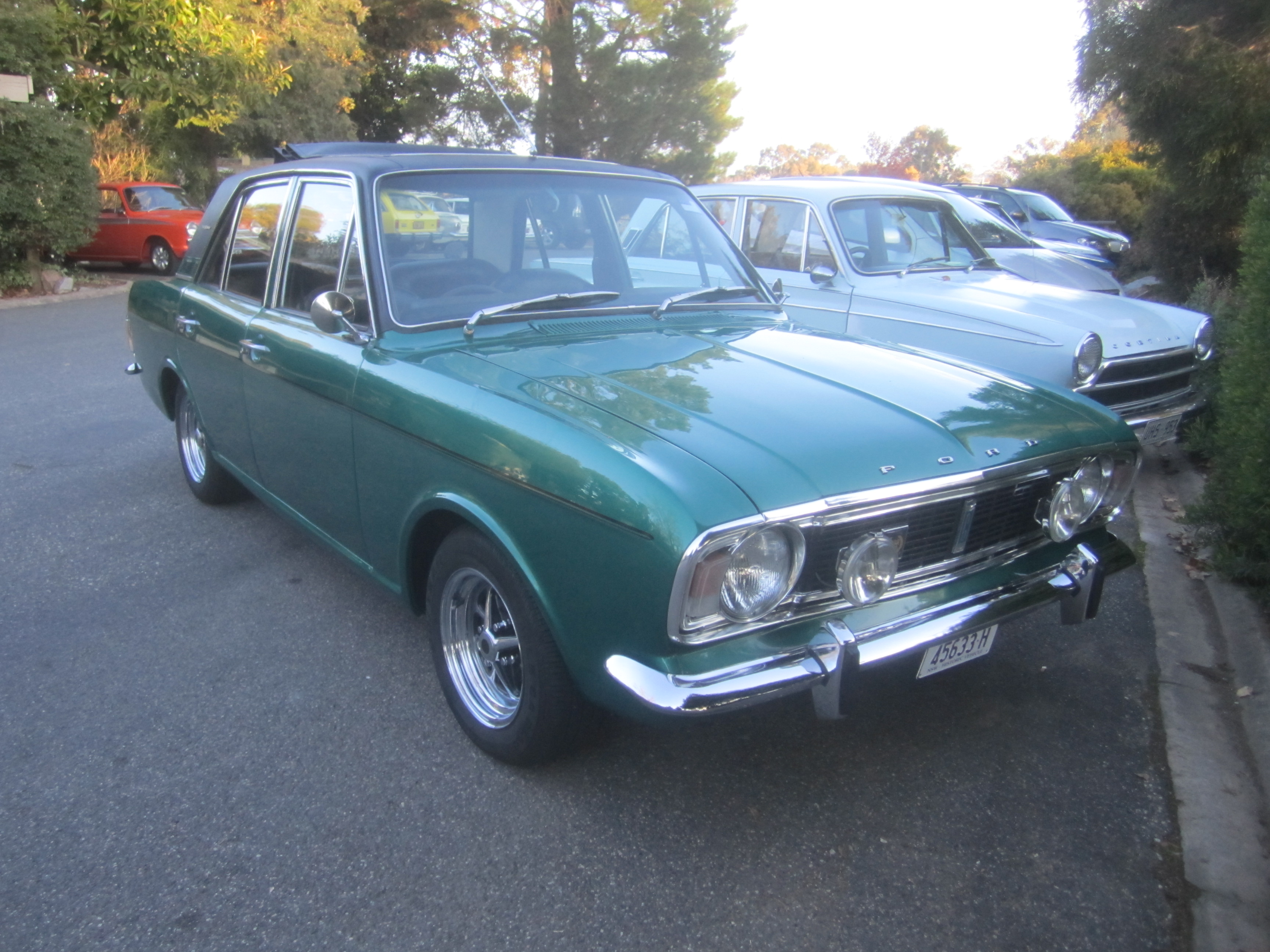 The Mk II Cortina, built from 1966-70 was a squarer, boxier shape than the Mk I. Engines were initially carried over from the Mk I but replaced in 1967 with the 1600 with the cross flow head. A mild facelift in 1969 saw separate F O R D letters on bonnet and boot, a black grille and chrome above and below the tail lights. In England and NZ the models were; Base, Deluxe, Super, GT and in 1967, 1600E (NZ GTE). Australian models were 220, 240, 440, 440L, GT and GTL. This car, Introduced in late 1967, the 1600E was like the Aussie GTL or the Kiwi GTE, it got the GT engine and suspension, luxury interior with walnut dash, bucket seats, full instrumentation, fog lights and Rostyle wheels. Photographed at the 1st Cortina Nationals in Albury, Australia.